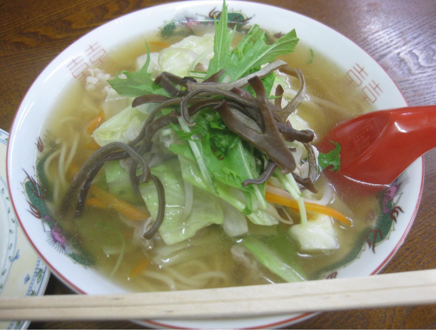 A champon of "Menrui Okabe" in Hikone, Shiga